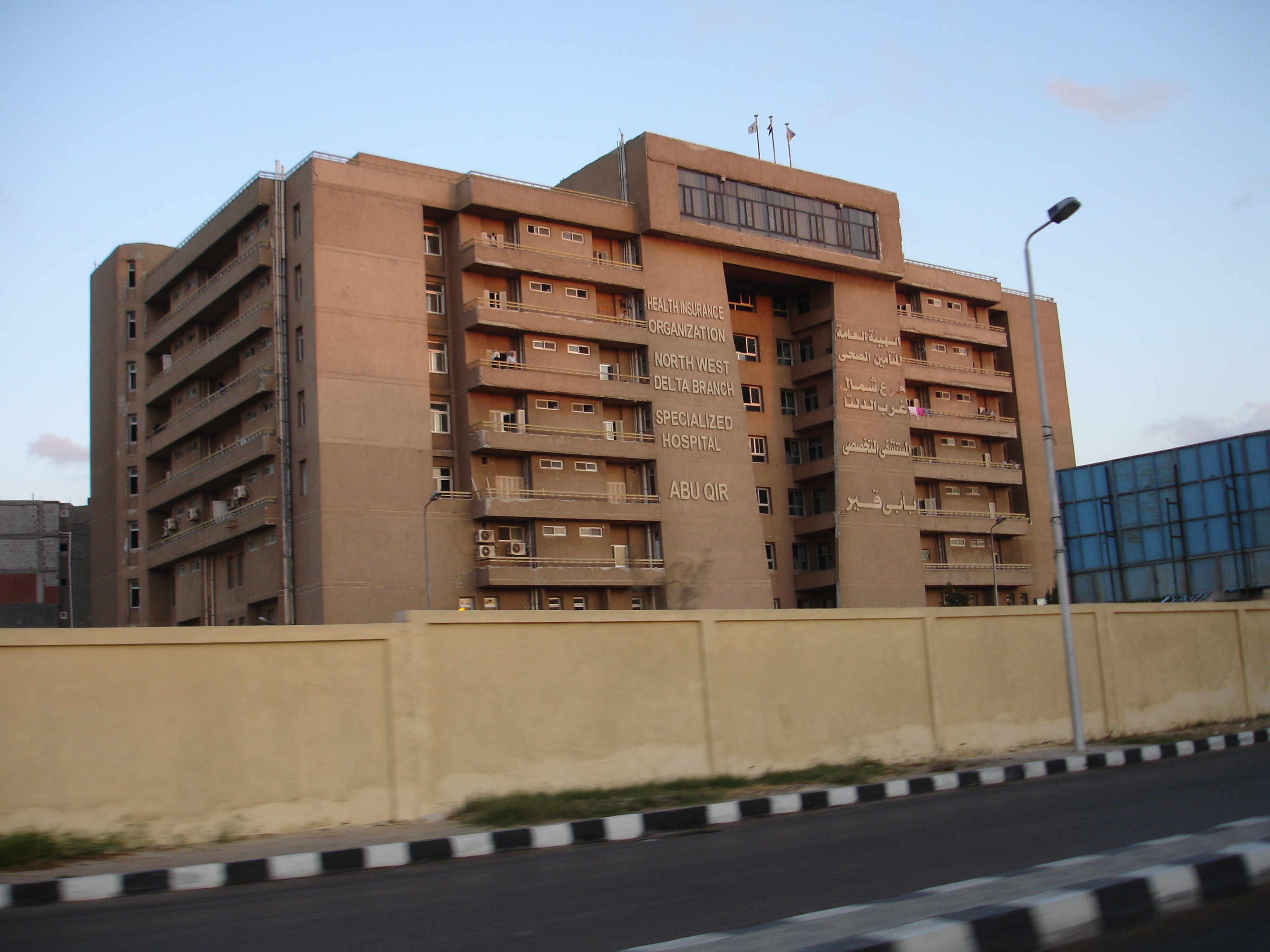 Health insurance organization-Specialized hospital at Abu Qir.